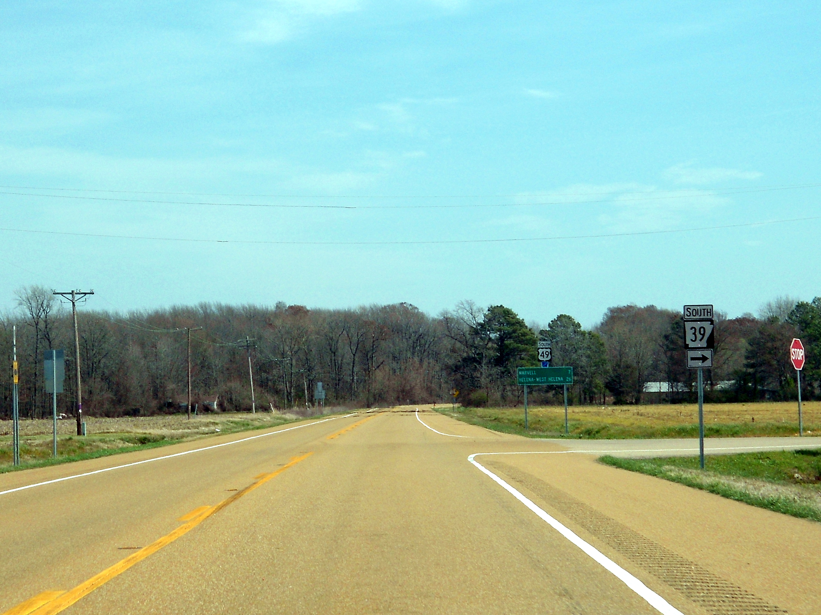 Highway 39 ends the concurrency with US 49